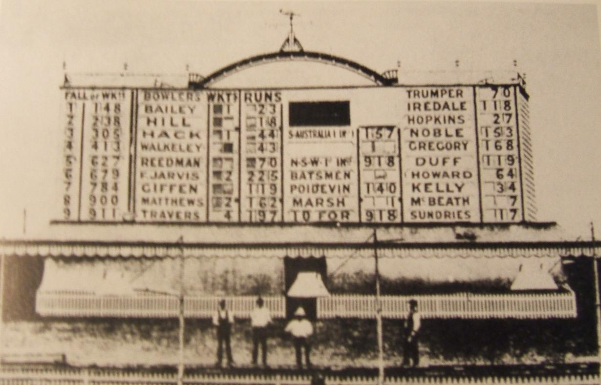 Sydney Cricket Ground Scorebaord in 1900, probably during New South Wales vs South Australia, 5-9 Jan 1901.